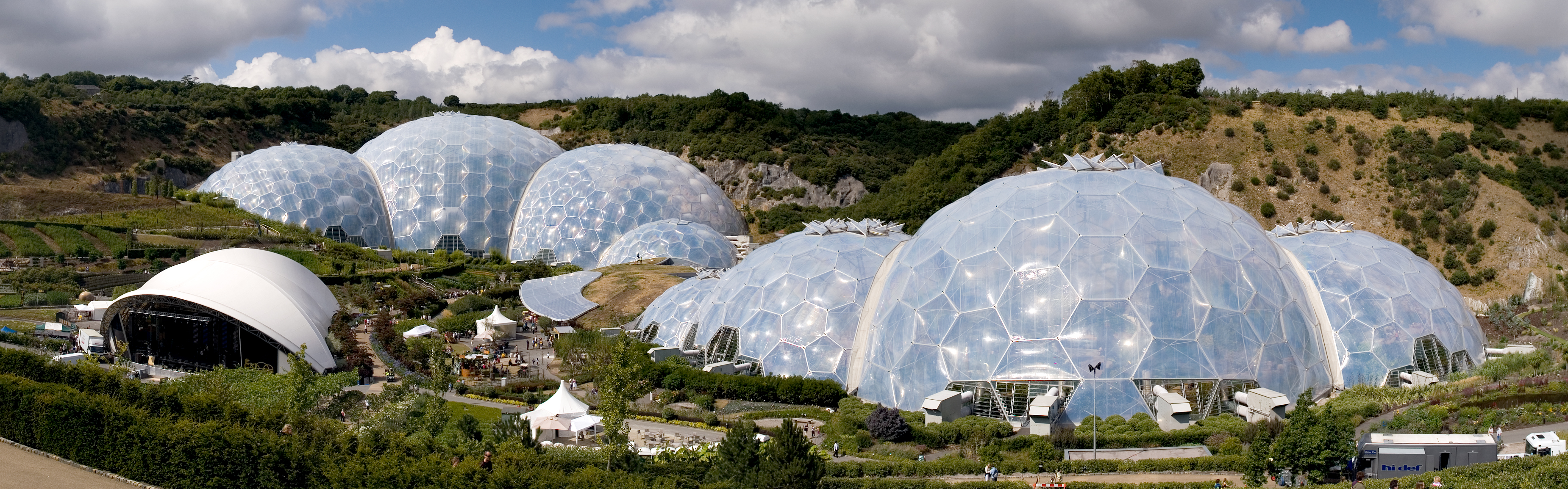 Panoramic view of the geodesic dome structures of the Eden Project. The Eden Project is a large-scale environmental complex near St Austell, Cornwall, England, United Kingdom. The project was conceived by Tim Smit and has quickly become one of the most popular visitor attractions in the United Kingdom. The complex includes two giant, transparent domes made of ETFE cushions, each emulating a natural biome, that house plant species from around the world. The first emulates a tropical environment, the other a warm temperate, mediterranean environment. The project took 2½ years to construct and opened to the public in March 2001.